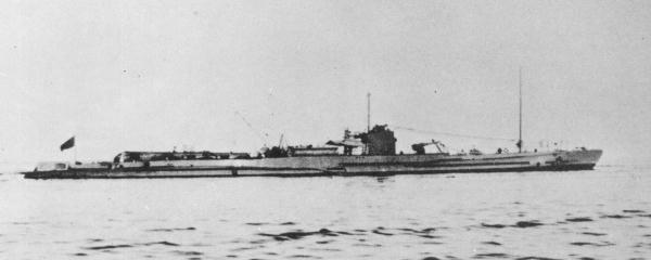 Japanese Submarine I-6 (JUNSEN-class, type II).